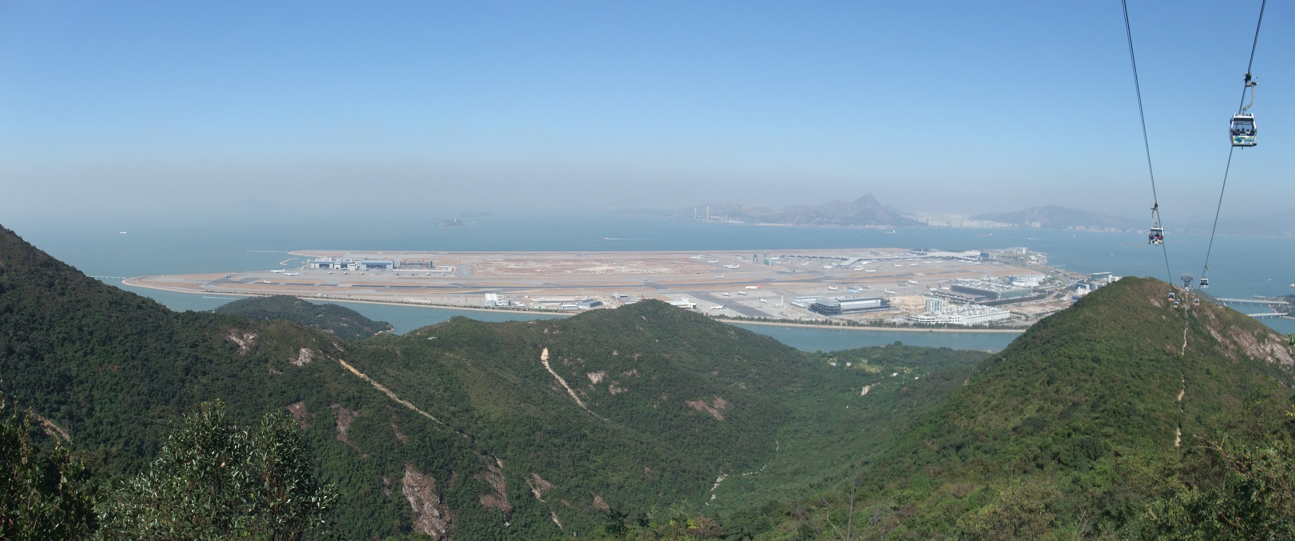 Panoramic photo of Hong Kong International Airport, combined from 3070089161, 3070093195, 3070096989 and 3070100811